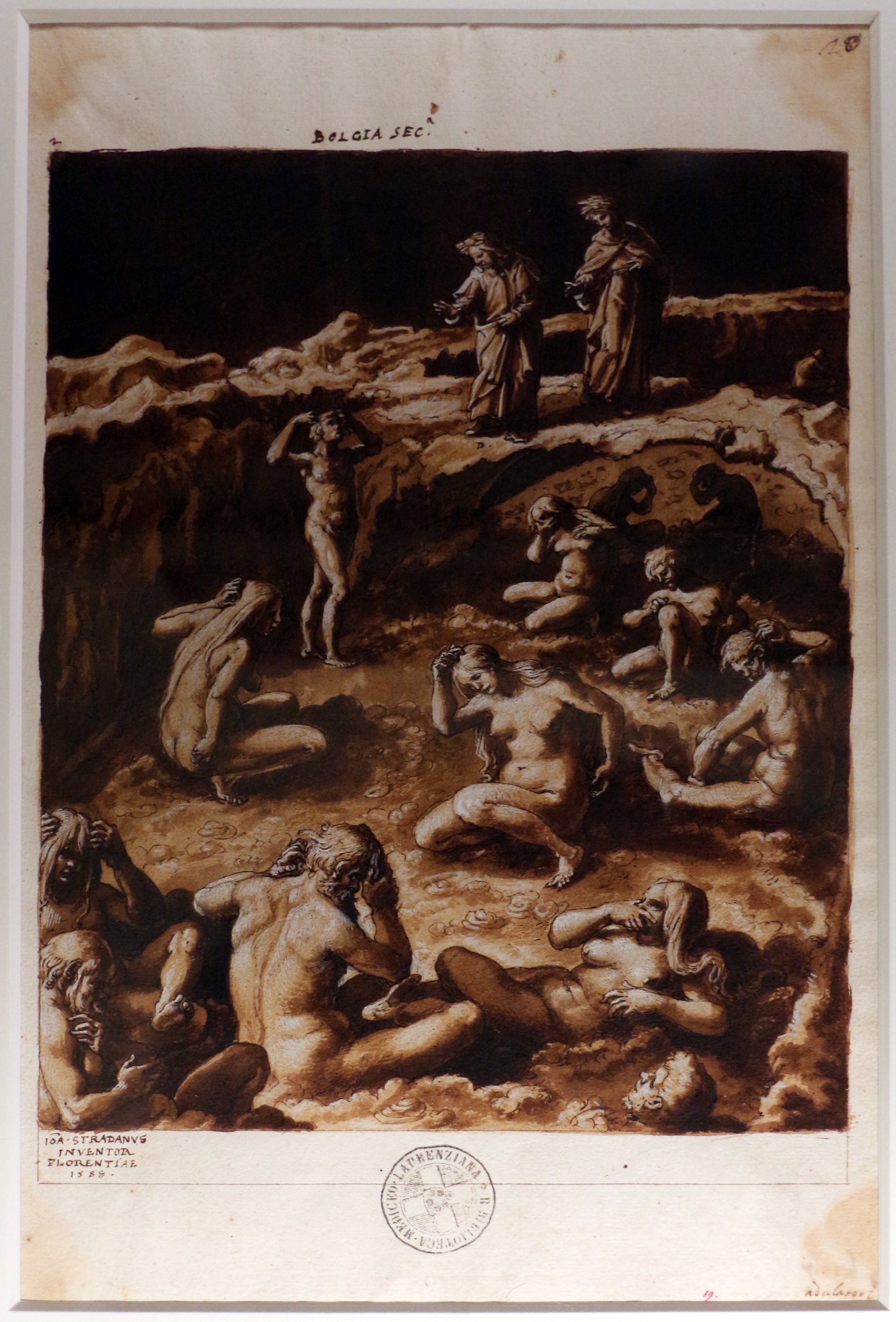 Jan van der Straet - Inferno